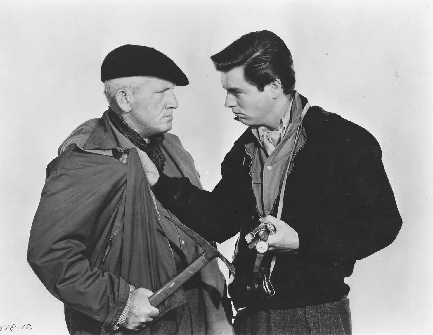 Spencer Tracy & Robert Wagner taken for film The Mountain (1956). See also film still. No copyright notice.